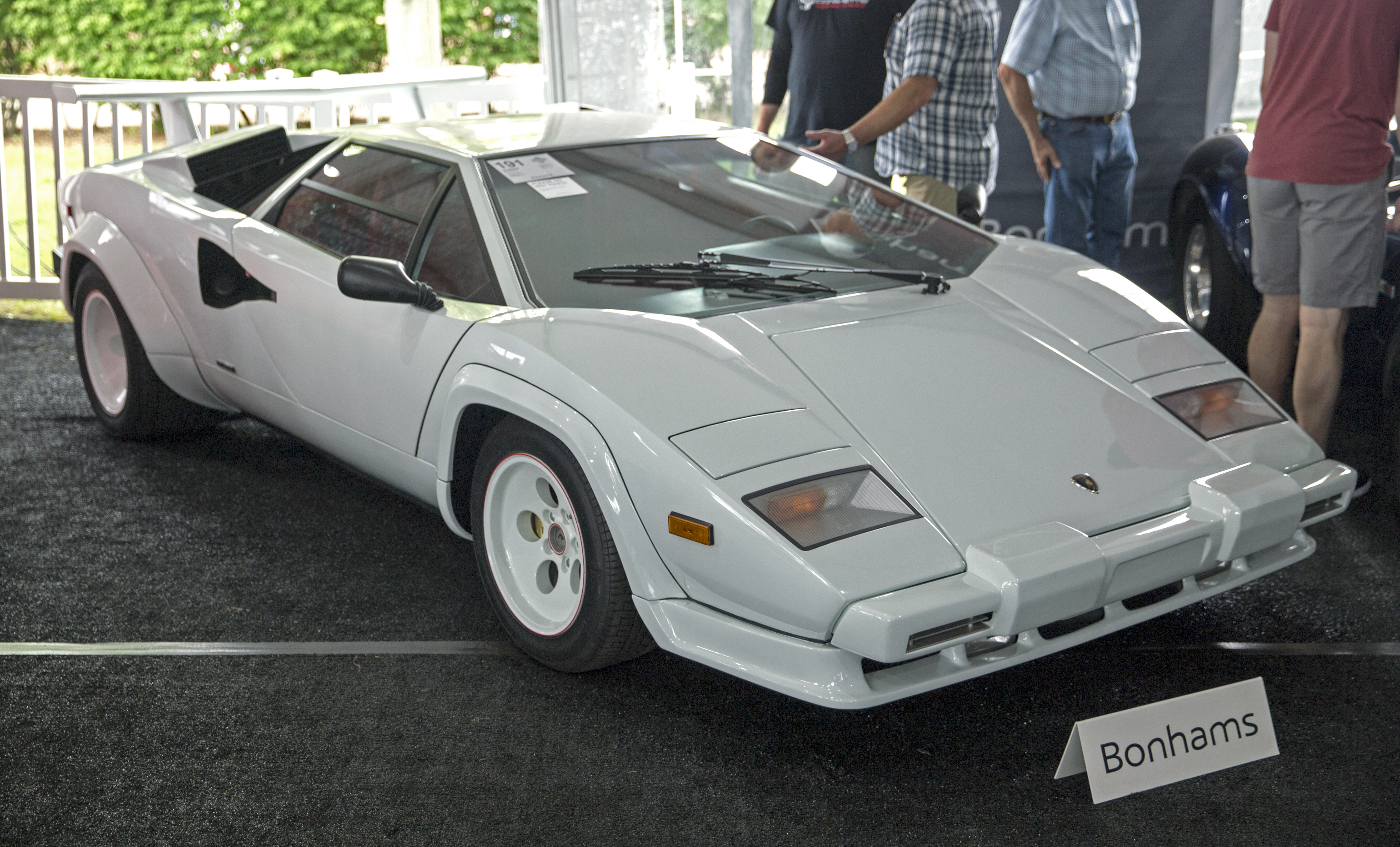 1986 Lamborghini Countach 5000 QV, not sold at the Bonhams auction attached to the 2018 Greenwich Concours d'Elegance. Bianco Polo Park with Red leather interior. Ordered on July 8, 1986 and manufactured that same month, finished on August 18, 1986 and shipped to Meadowland Car Import in North Bergen, New Jersey. With the (original) owner in New England since the 22nd of the same month. 41,500km, one of 676 Quattrovalvoles built - sources differ on how many were fuel injected, as this one is.